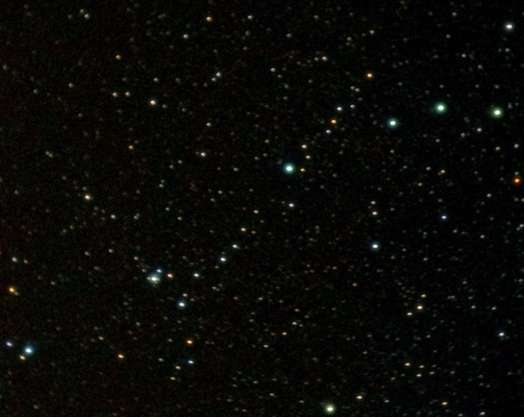 17 in the Moore Winter Marathon : Kemble's Cascade. This is a cluster of stars arranged in an stright line.